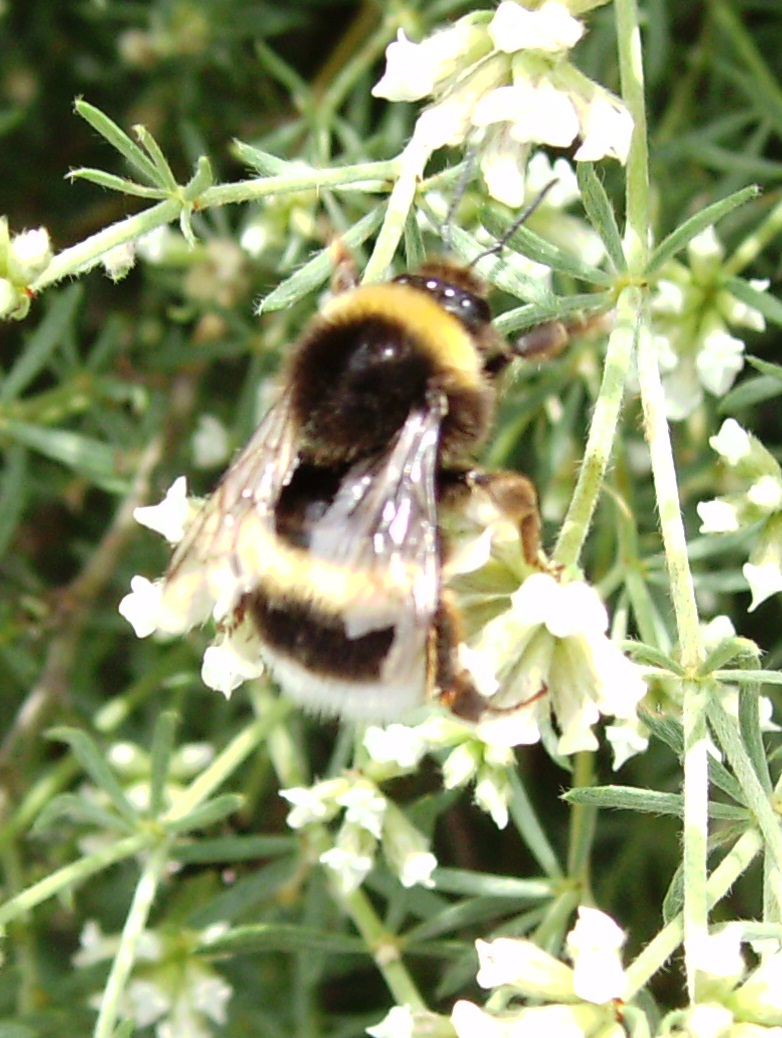 Bombus terrestris on Dorycnium pentaphyllum, Castellatallat, Catalonia